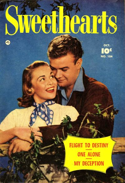 Front Cover of "Sweethearts" comic book